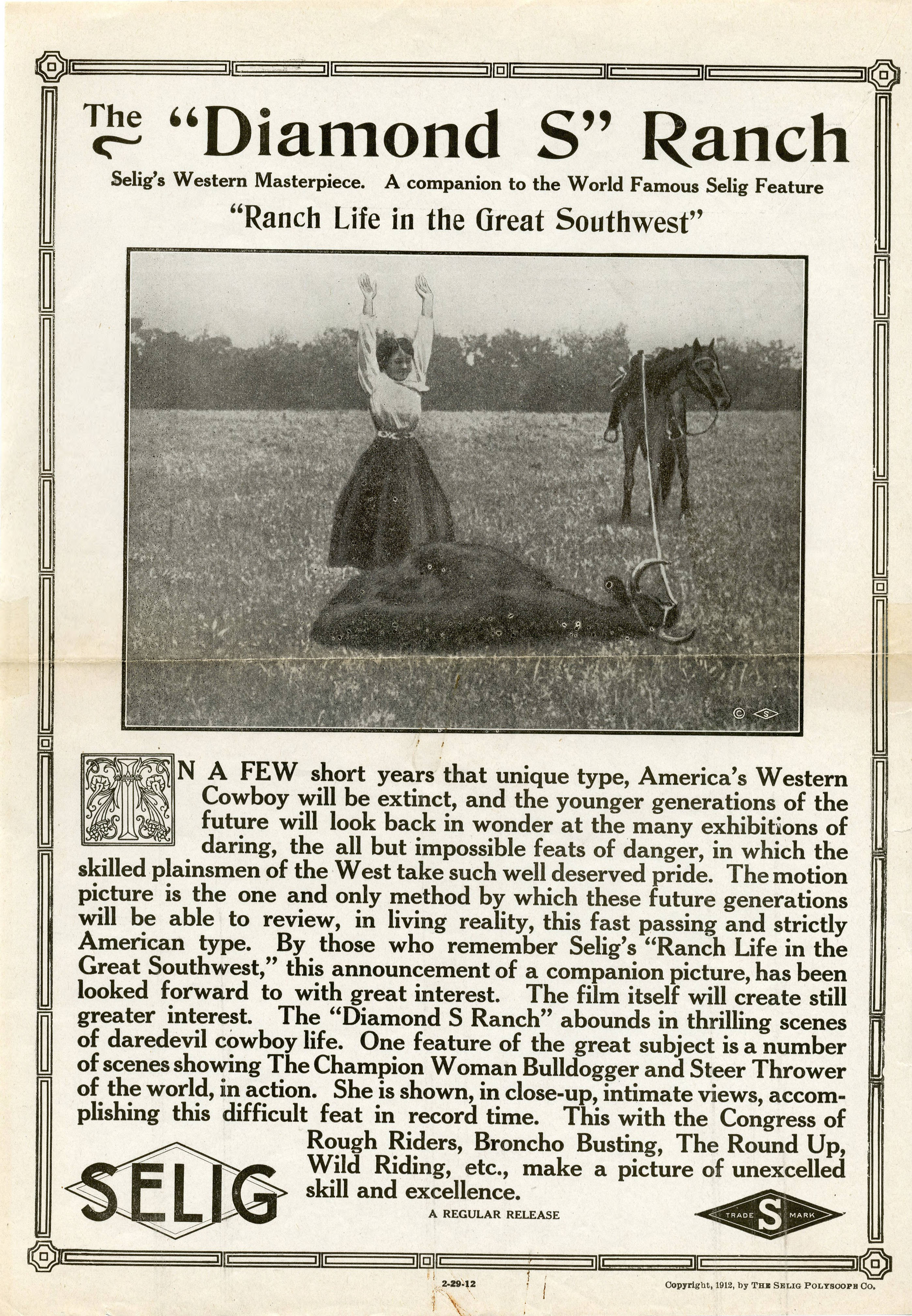 Release flier for THE DIAMOND S RANCH, 1912